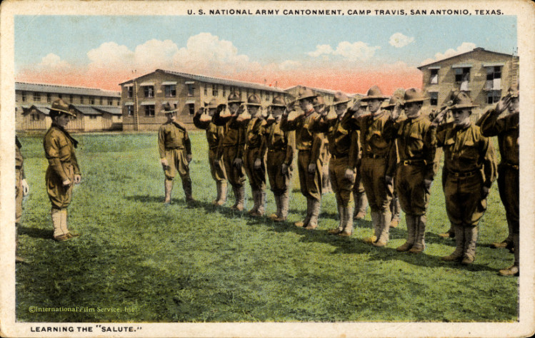 soldiers, salute, Camp Travis